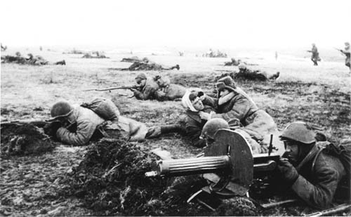 Battle of Rostov